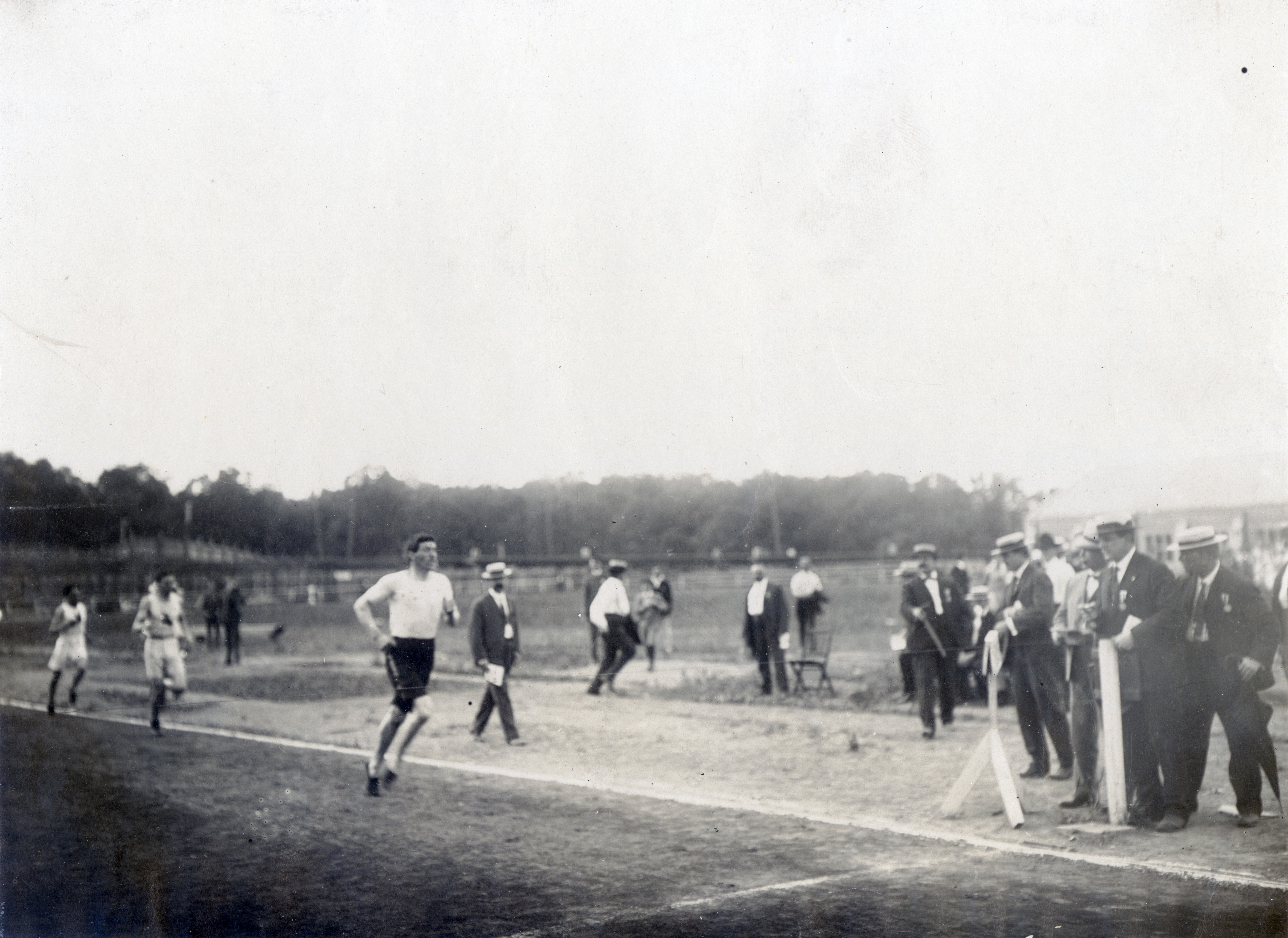 John J. Daly of Ireland approaching the finish line of the one mile handicap race, out in front of the other racers. Title: John J. Daly of Ireland winning the one mile handicap race at the 1904 Olympics.